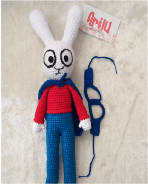 amigurumi simon the rabbit